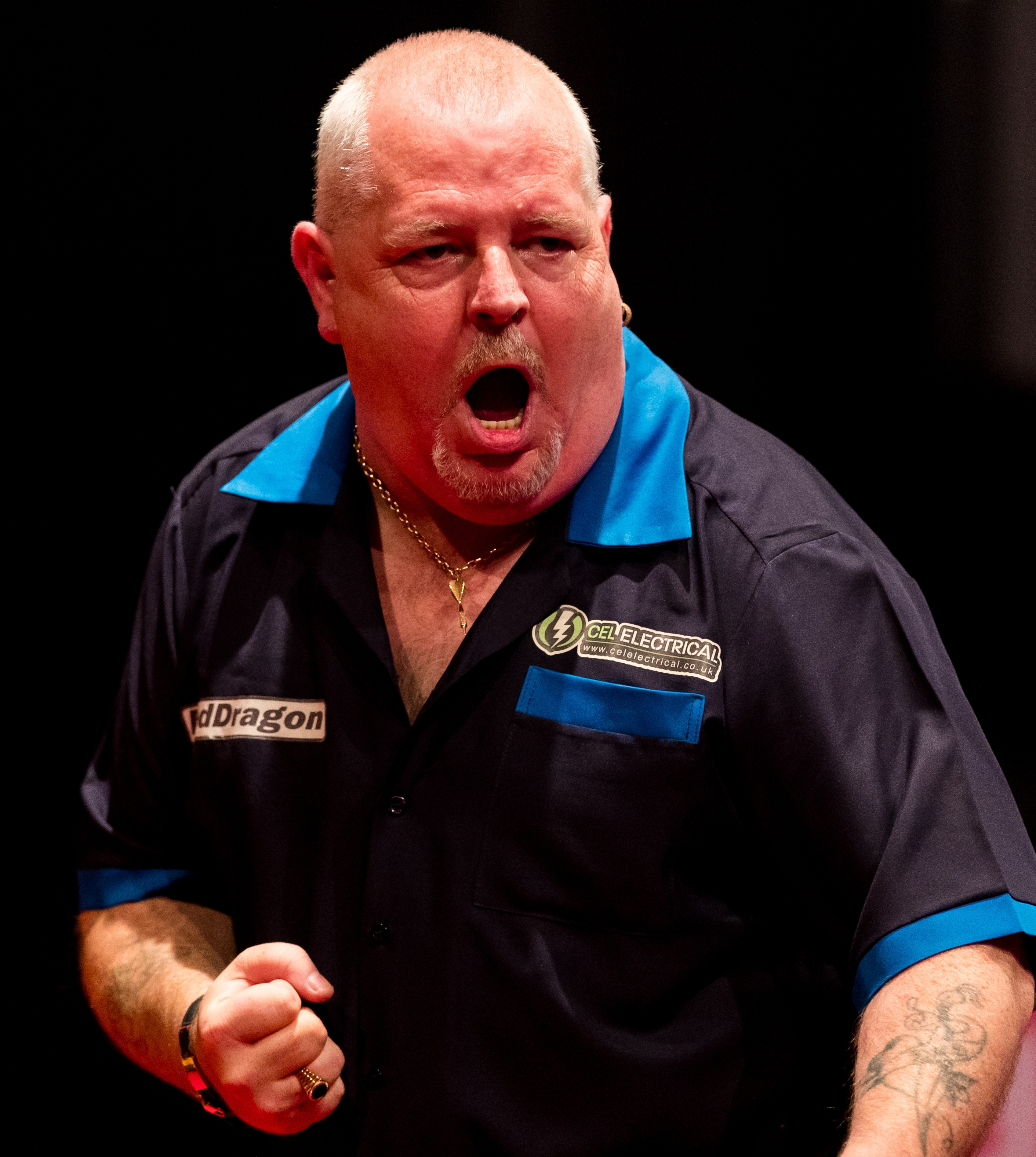 Robert Thornton 5:6 Kim Huybrechts during PDC Europe Darts Matchplay at Maimarkthalle, Mannheim, Baden-Württemberg, Germany on 2019-09-06, Photo: Sven Mandel